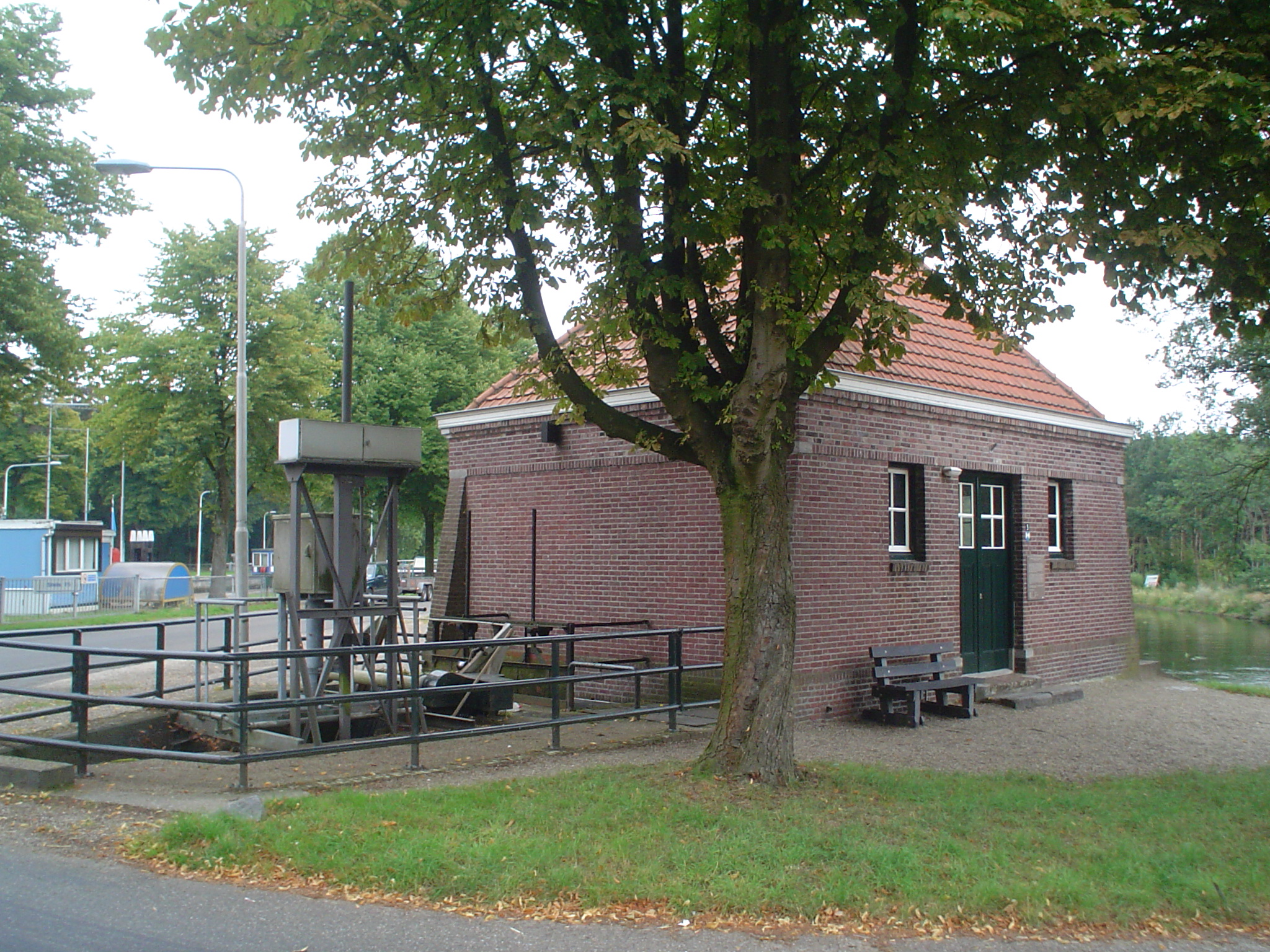 Hydroelectric powerplant "Roeven" near Nederweert, the Netherlands.